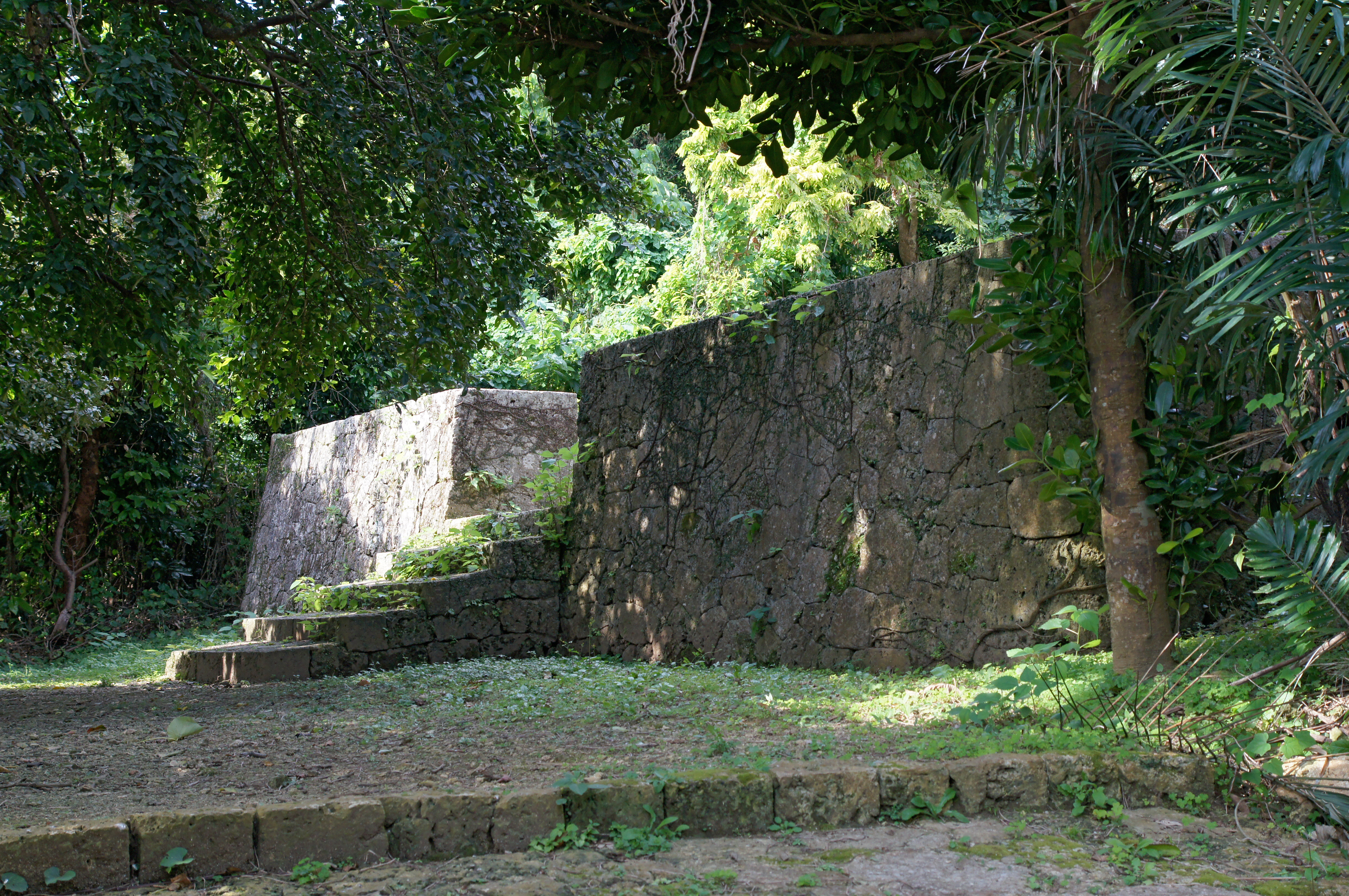 Sueyoshi Park, Naha, Okinawa prefecture, Japan